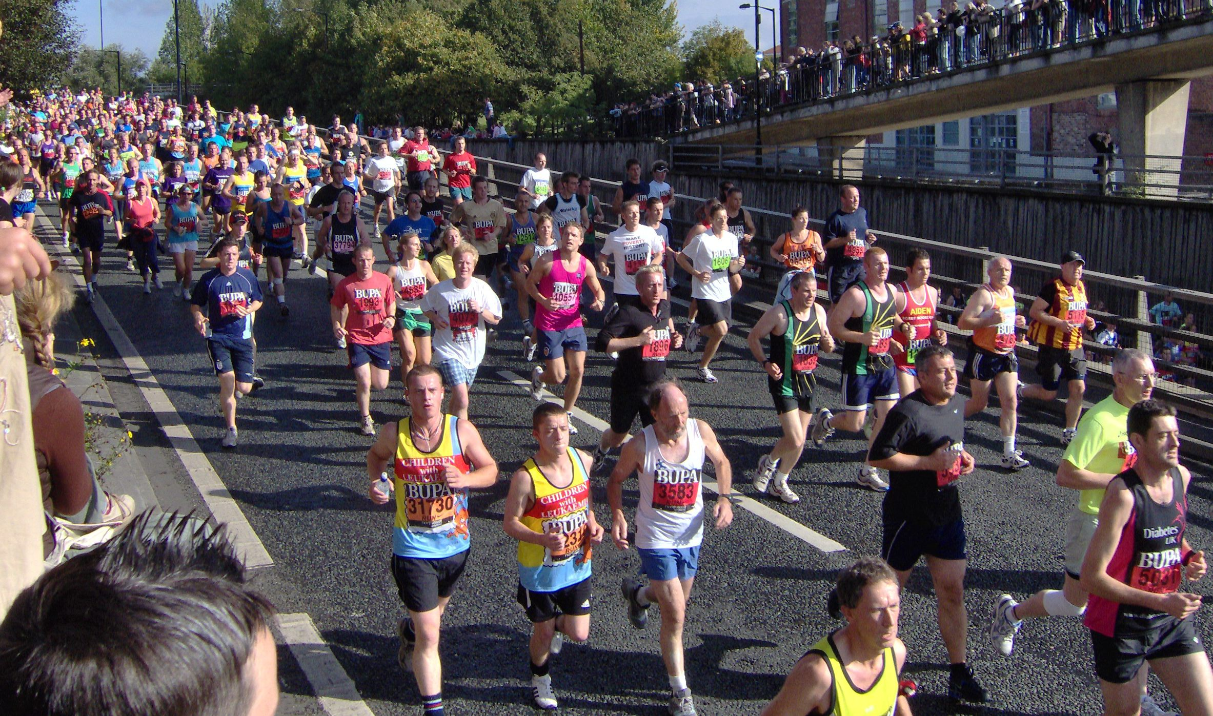 just before the one mile marker